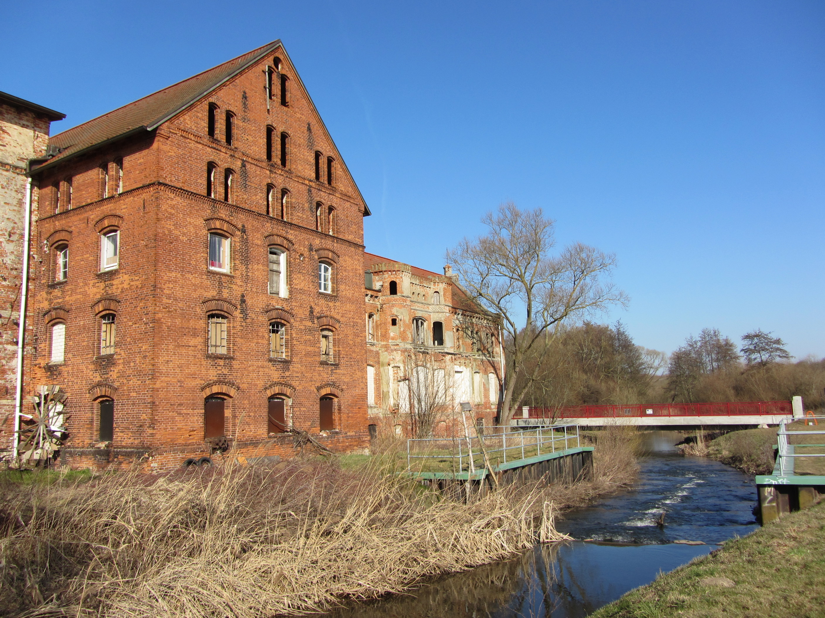 Water mill with mill building, warehouse and manor house in Kluß (Wismar), district Nordwestmecklenburg, Mecklenburg-Vorpommern, Germany